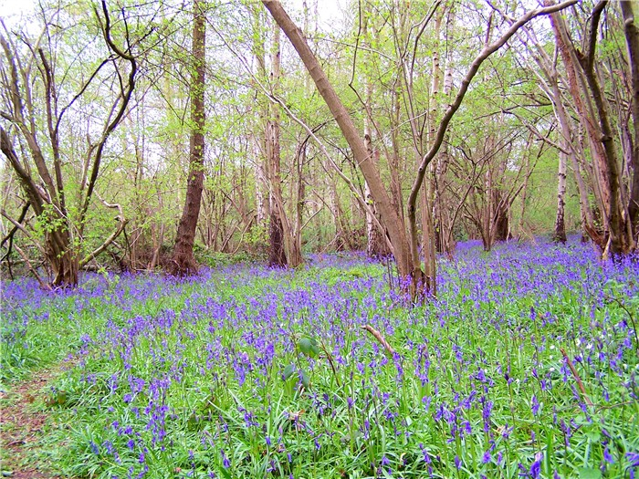 Swithland woods. Taken by kev747